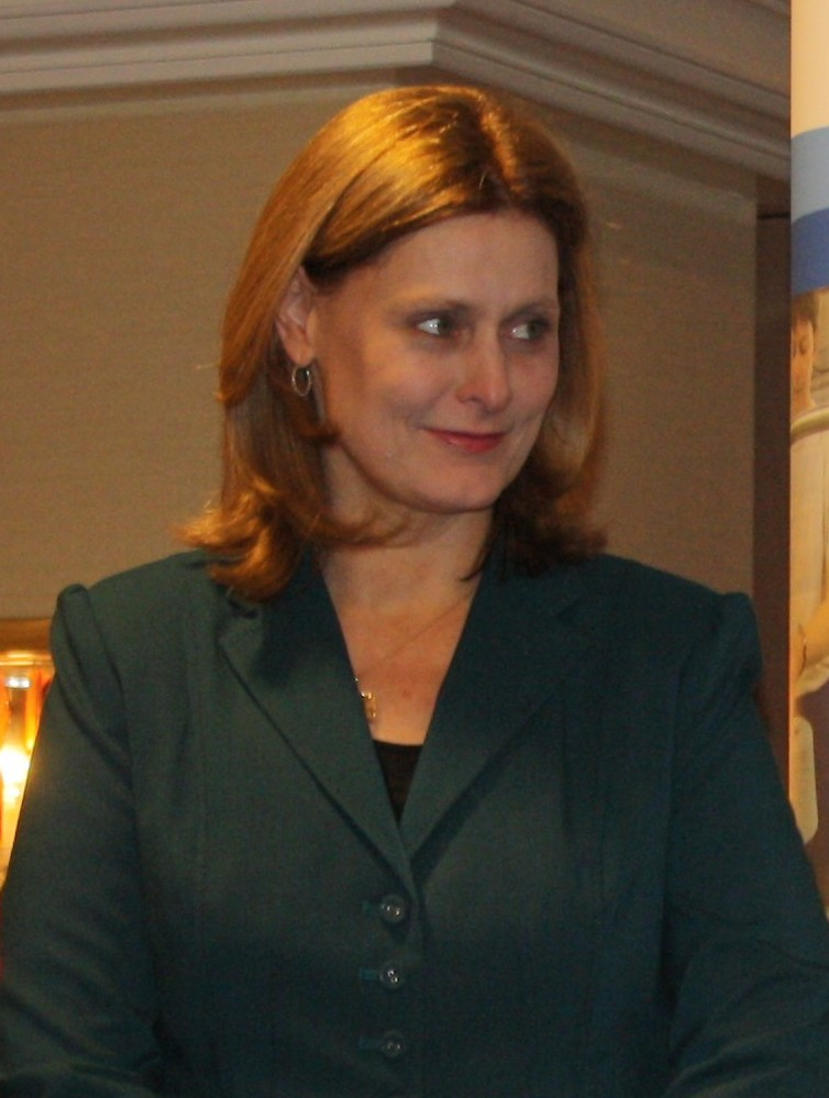 Gordon and Sarah Brown